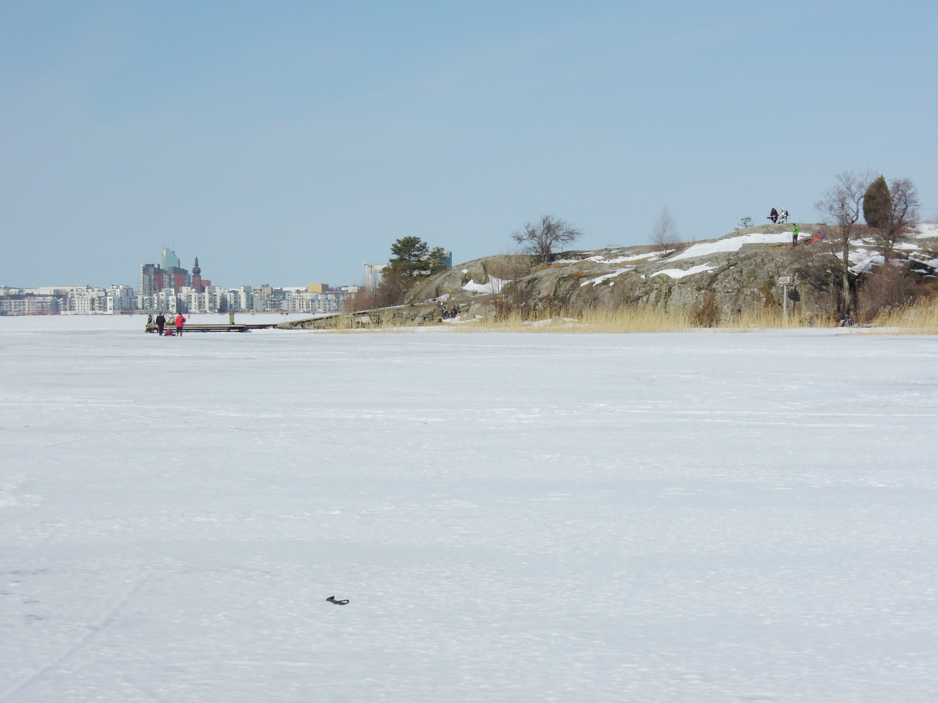 Östra Holmen with Västerås, Sweden in the background, winter